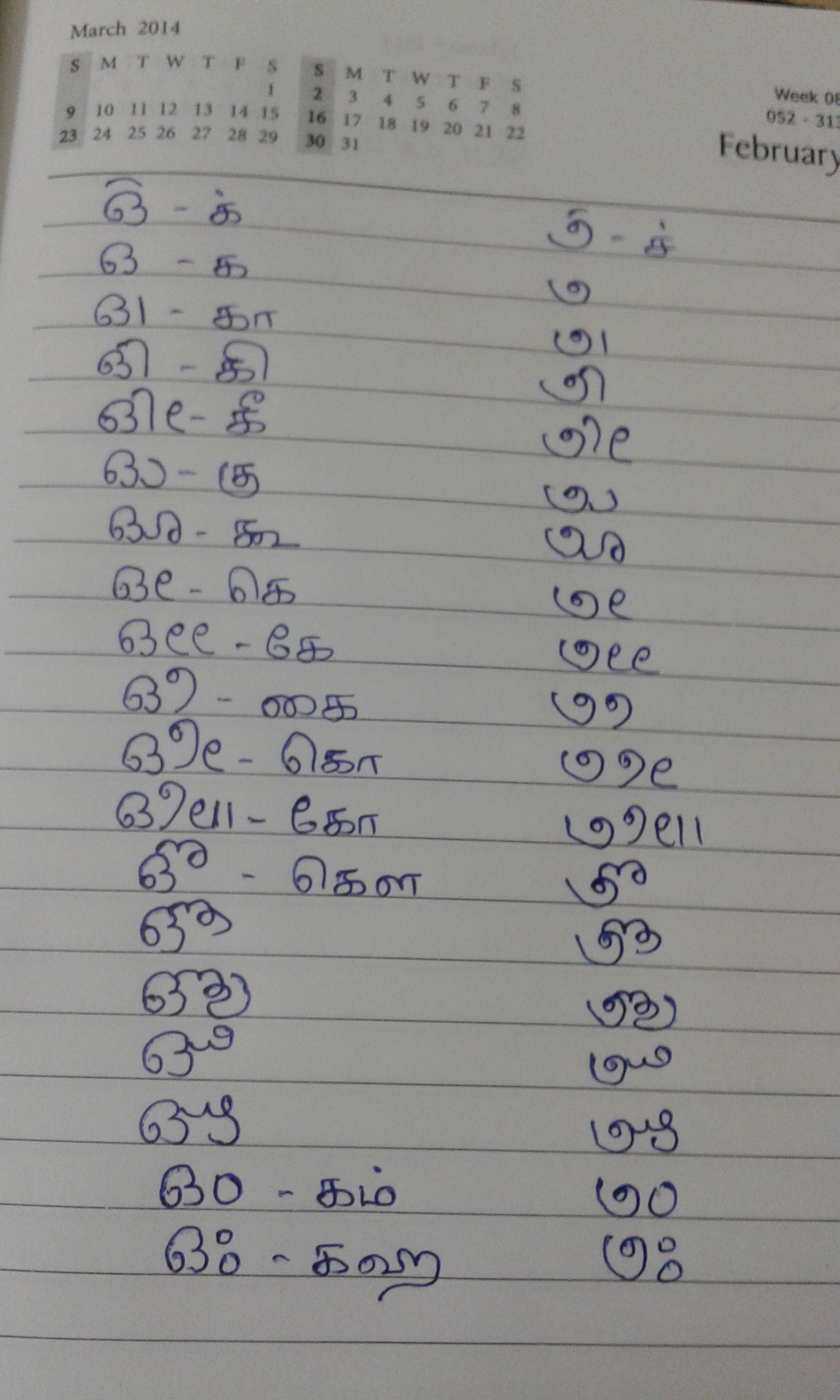 In this image, we can see Badaga script Jeevadhehagalu (uyirmei:Tamil). These are the letters raised by joining Dheha swara and jeeva swara as in Tamil and Kannada script.